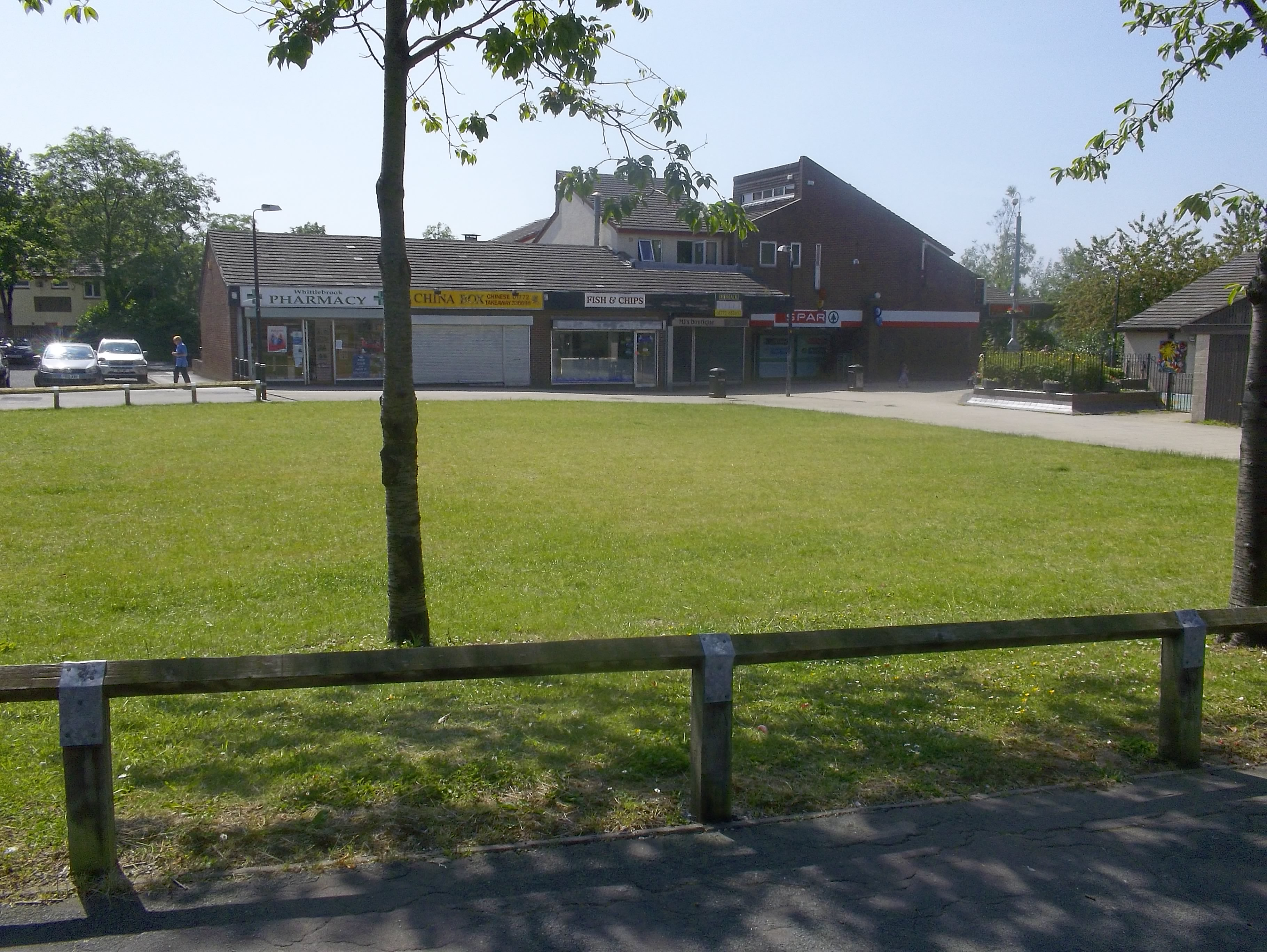 Where the Clayton Brook pub once stood and it is a lush new green where we have had many events